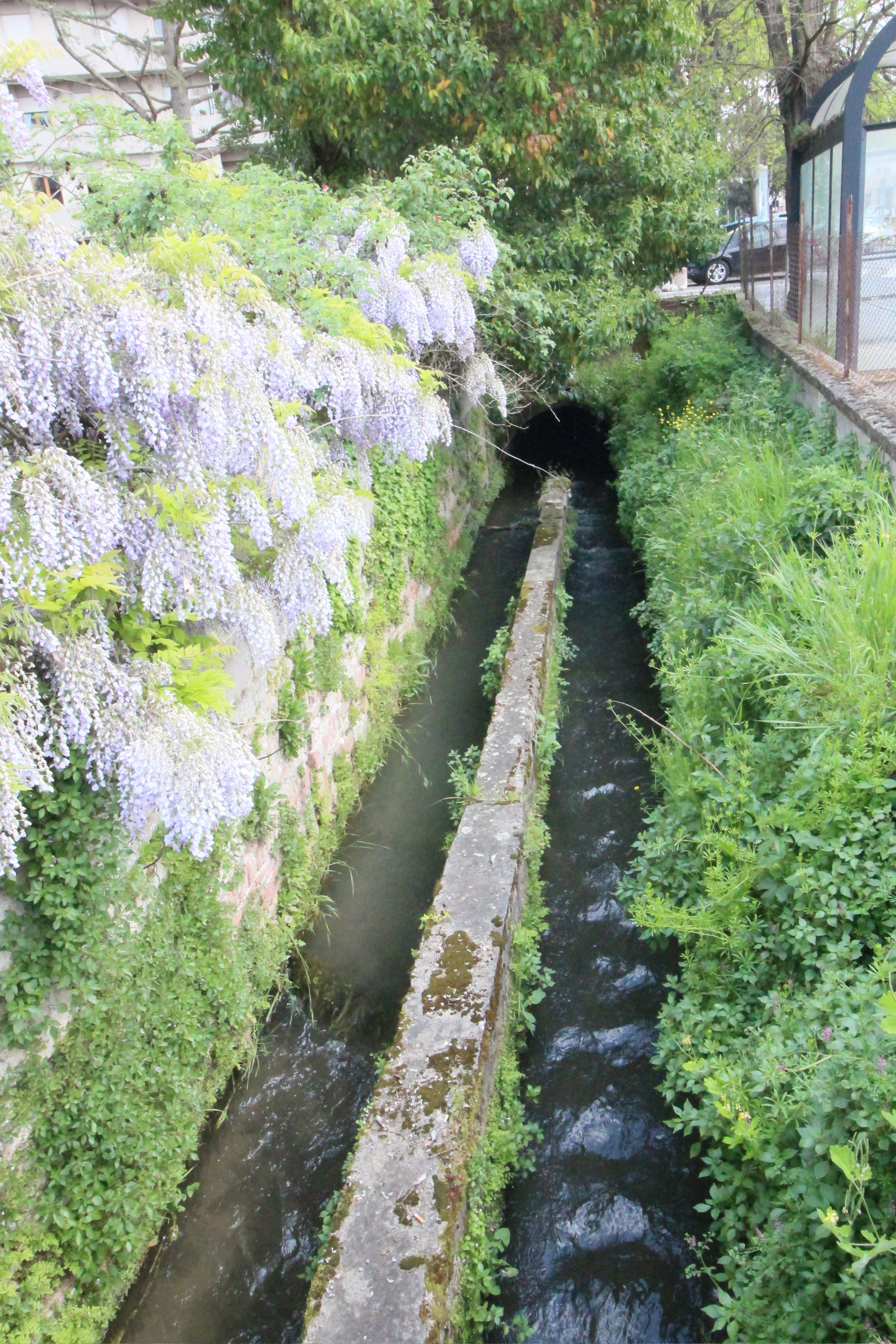 Artificial water channels Gore di Colle di Val d'Elsa, Colle di Val d'Elsa, Province of Siena, Tuscany, Italy